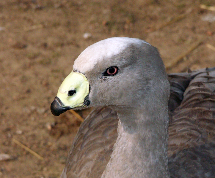 Cape Barren Goose at Tiergarten Schönbrunn.